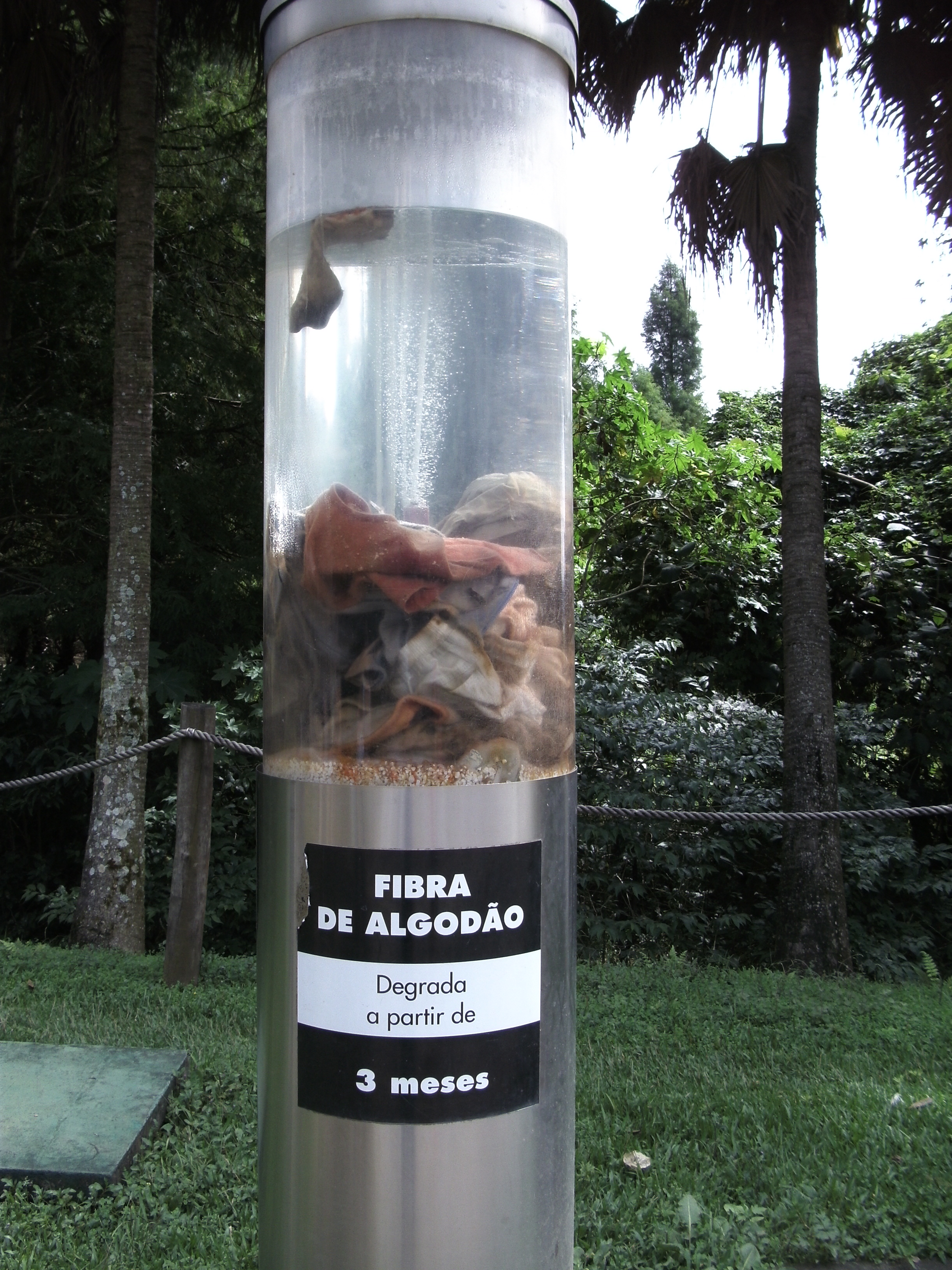 Cotton and ambient